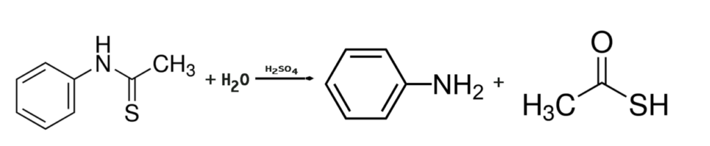 Thioacetic acid from thioacetanilide hydration